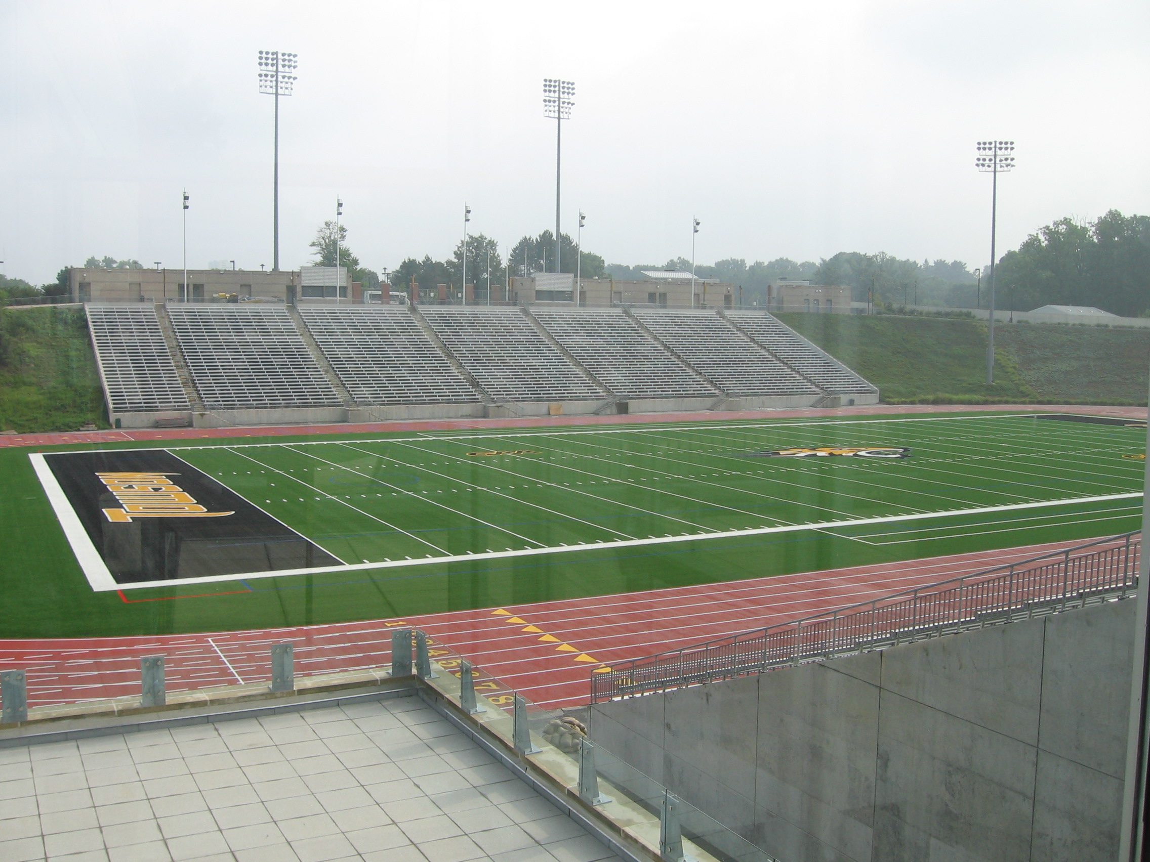 A view of the field at Johnny Unitas Stadium, home of the Towson University Tigers football and lacrosse teams.